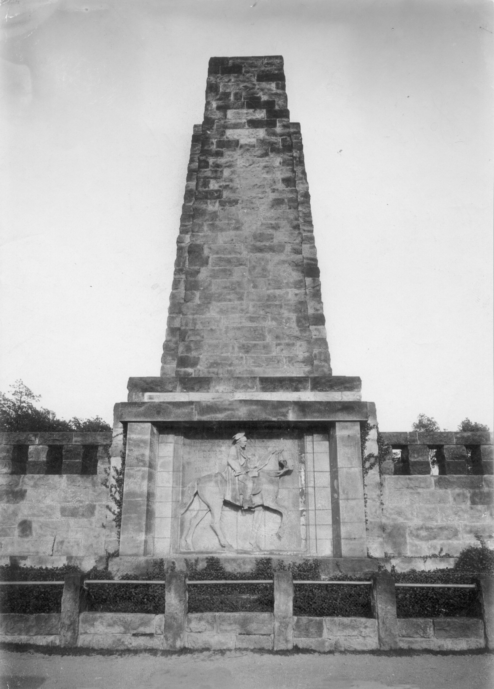 This image shows the memorial for king Albert of Saxony by Max Hans Kühne on top of the Windberg (353 metres) in Freital. The Fresco is a work of Heinrich Wedemeyer.